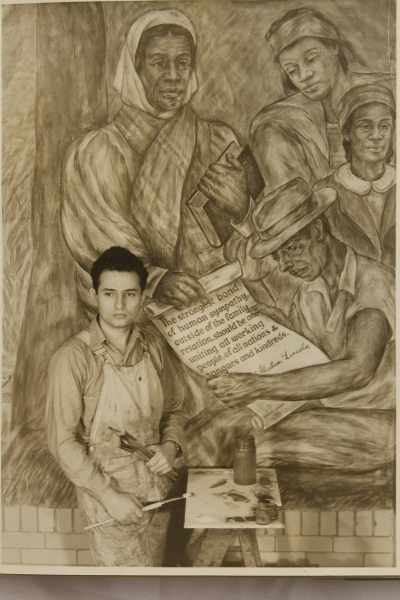 Sojourner Truth in WPA mural with artist Norman Carton, 1941